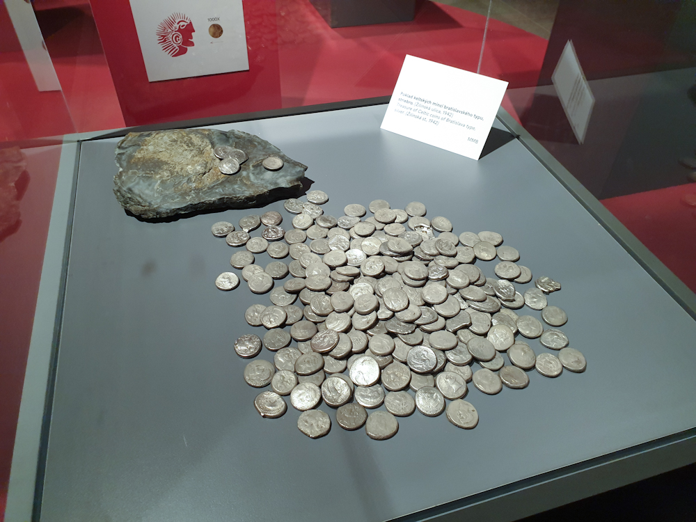 Treasure_of_Celtic_coins_of_Bratislava_typelabel QS:Len,"Treasure_of_Celtic_coins_of_Bratislava_type"label QS:Lhu,"Kelta kincslelet a pozsonyi Történelmi Múzeumban"